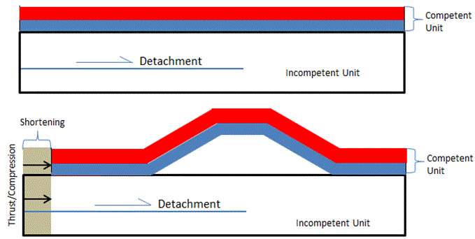 The general geometry of a detachment fold illustrating a layer parallel detachment fault undergoing shortening and the resulting geometry of a detachment fold.